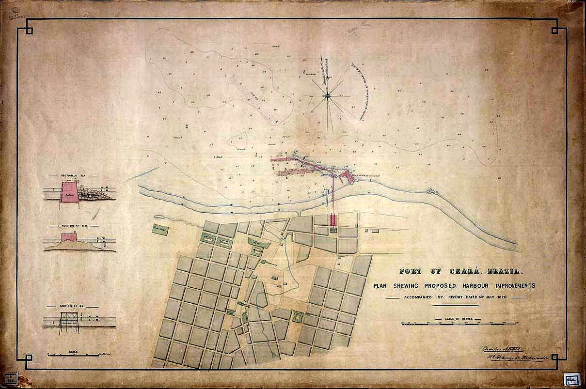 Port of Ceará Brasil 1870